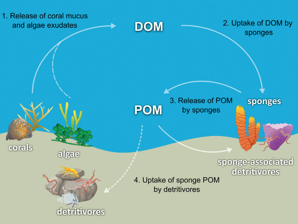 The steps of the sponge loop pathway: (1) corals and algae release exudates as dissolved organic matter (DOM), (2) sponges take up DOM, (3) sponges release detrital particulate organic matter (POM), (4) sponge detritus (POM) is taken up by sponge-associated and free-living detritivores. Pathways in solid arrows indicate the steps of trophic transfer of coral-derived carbon and nitrogen demonstrated in the present study. Dashed arrows represent steps of trophic transfer from the literature: (−−−) Rix et al. (2017) and (---) de Goeij et al. (2013) Rix L, de Goeij JM, van Oevelen D, Struck U, Al-Horani FA, Wild C and Naumann MS (2017) "Differential recycling of coral and algal dissolved organic matter via the sponge loop". Funct Ecol, 31: 778−789. de Goeij JM, van Oevelen D, Vermeij MJA, Osinga R, Middelburg JJ, de Goeij AFPM and Admiraal W (2013) "Surviving in a marine desert: the sponge loop retains resources within coral reefs". Science, 342: 108−110.